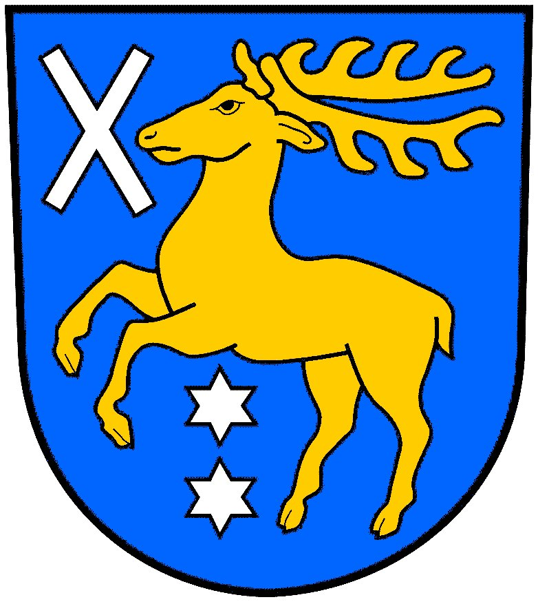 Municipal coat of arms of Sány village, Nymburk District, Czech Republic.